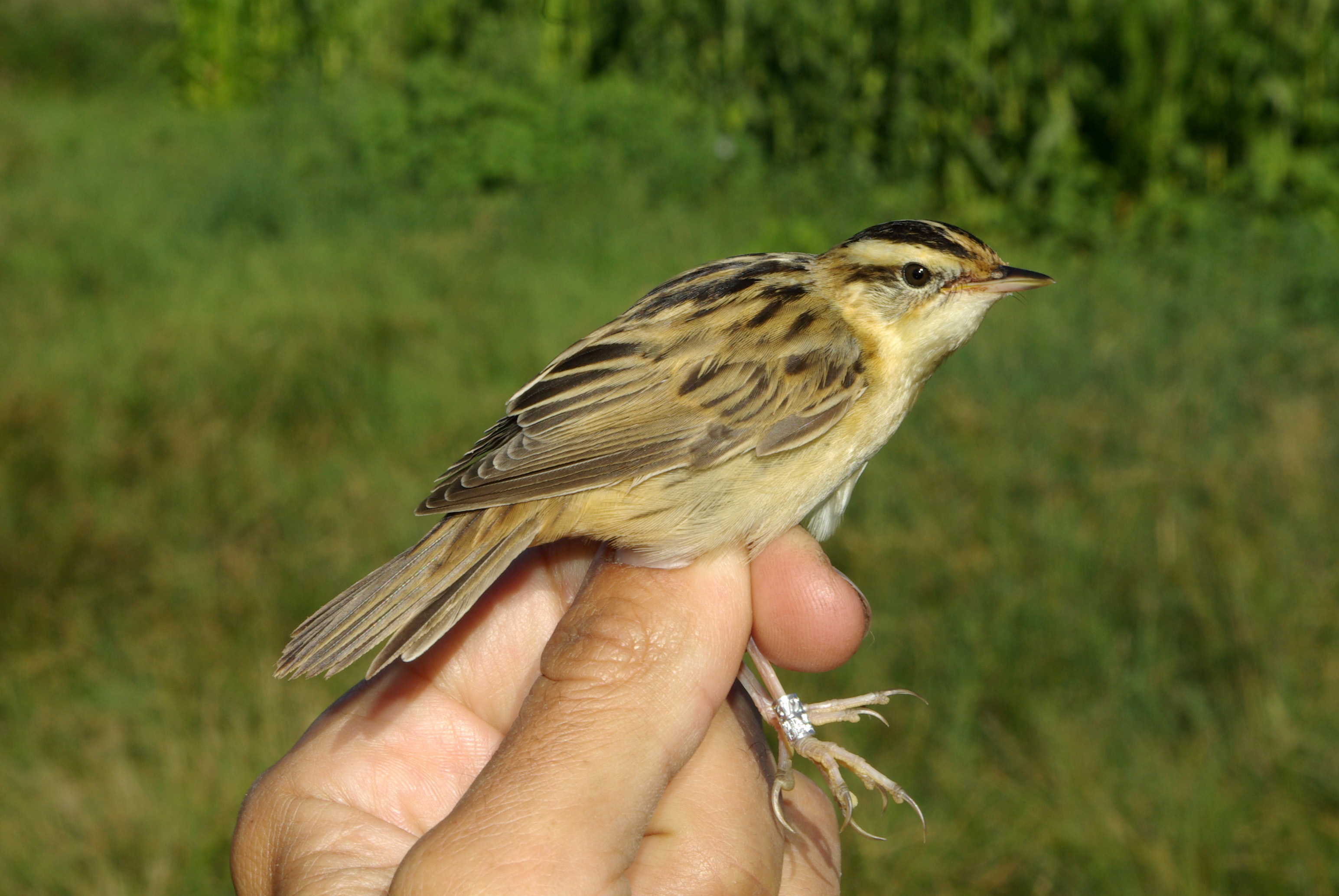 Aquatic Warbler (Acrocephalus paludicola) ringed in Zambroncinos del Páramo lagoon (León, Spain)